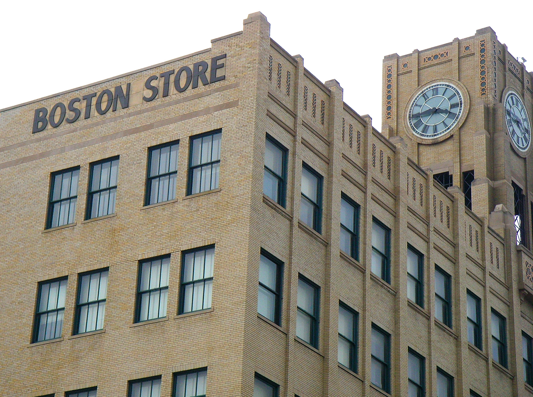 This photograph of The Boston Store, in Erie, Pennsylvania, was taken on 4 June 2007 by Pat Noble (self). The building is a registered historic landmark.